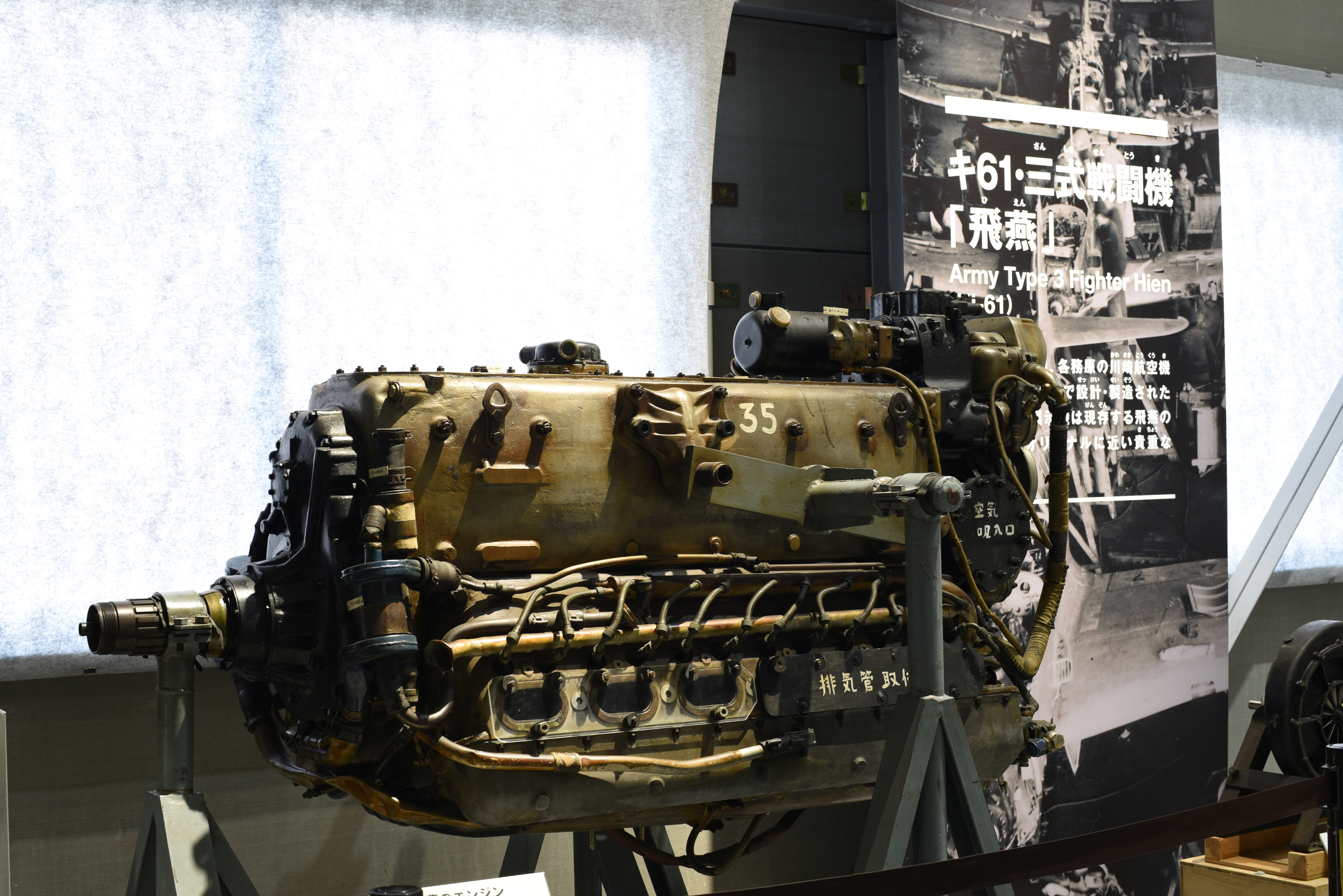 Hien's Engine